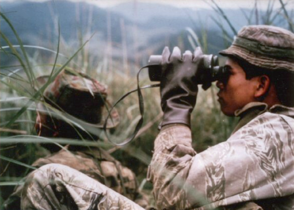 March 5, 1968. 1st Cav LRRP Montagnard scouts in Quang Tri Province, Vietnam